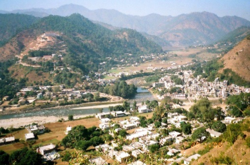 A Picture of Bageshwar town in 2006